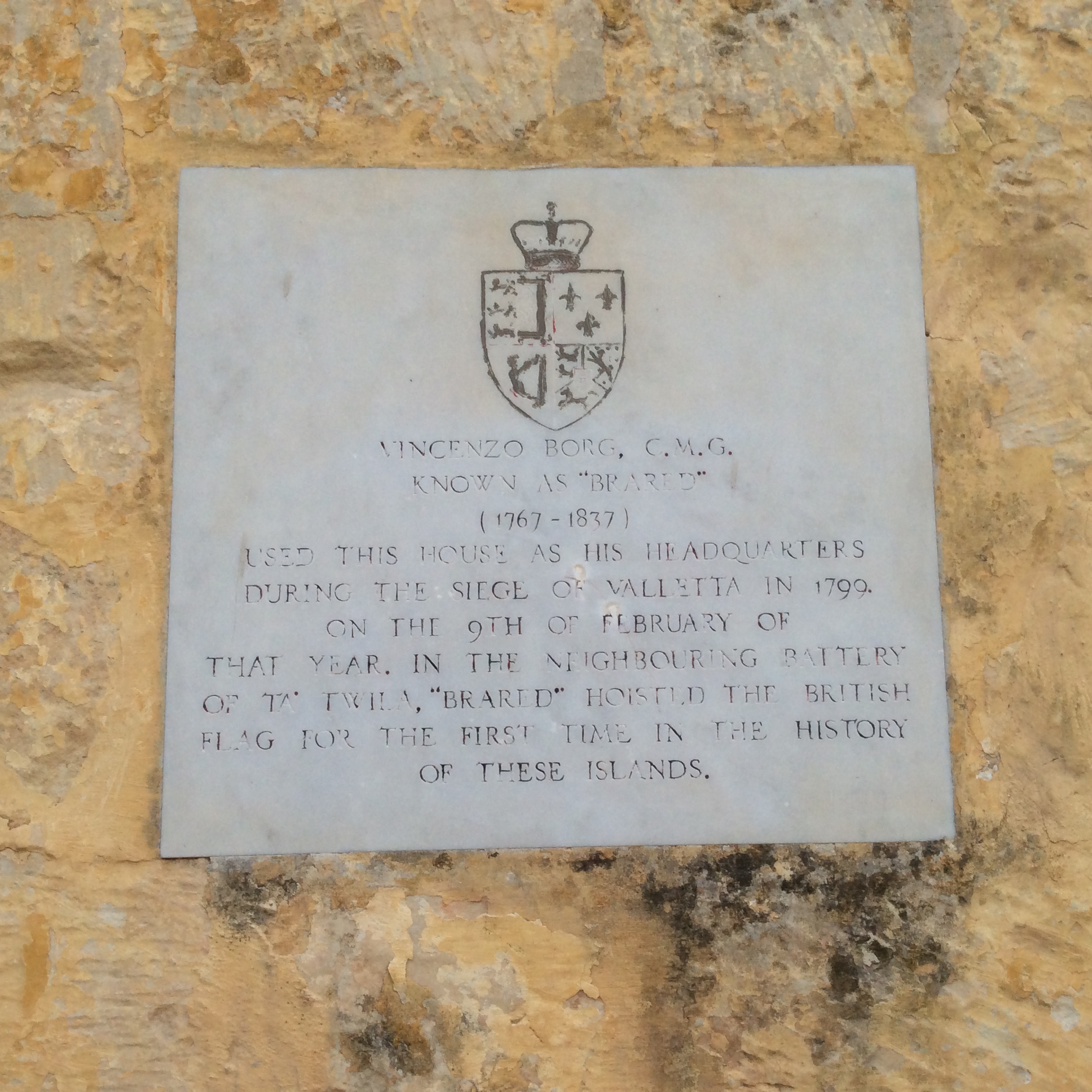 Ta' Xindi Farmhouse plaque, San Gwann Malta